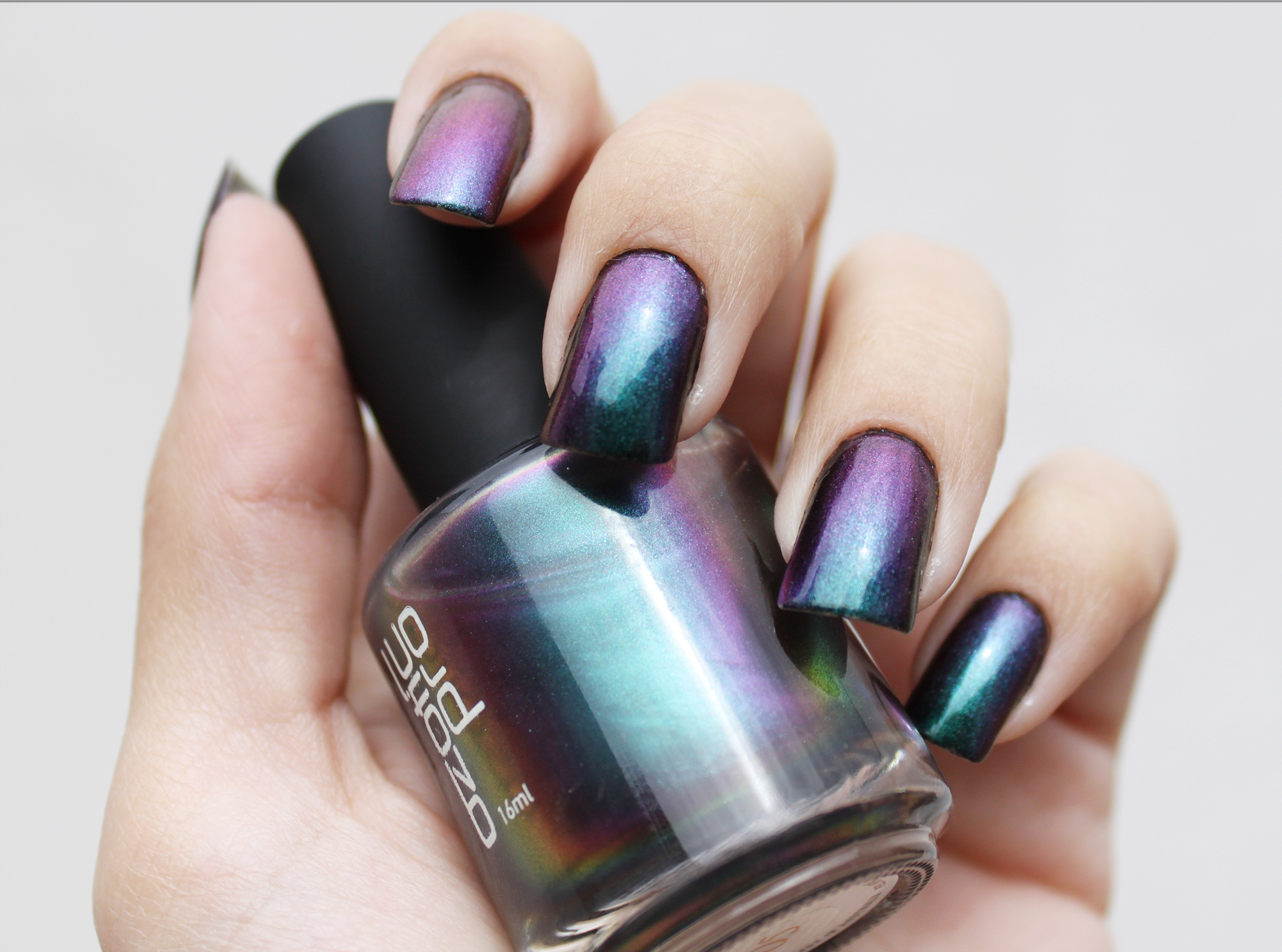 Esse é o bonitinho que eu escolhi para usar na Beauty Fair! Gente, que esmalte escandaloso! Claro, ele é muito mais bonito do que qualquer máquina consegue captar... Sem enganação, o que você vê no vidrinho, você vê na unha! Fiquei simplesmente maravilhada com ele! Não consigo parar de olhar!